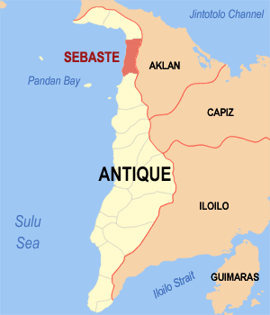 Map of Antique showing the location of Sebaste